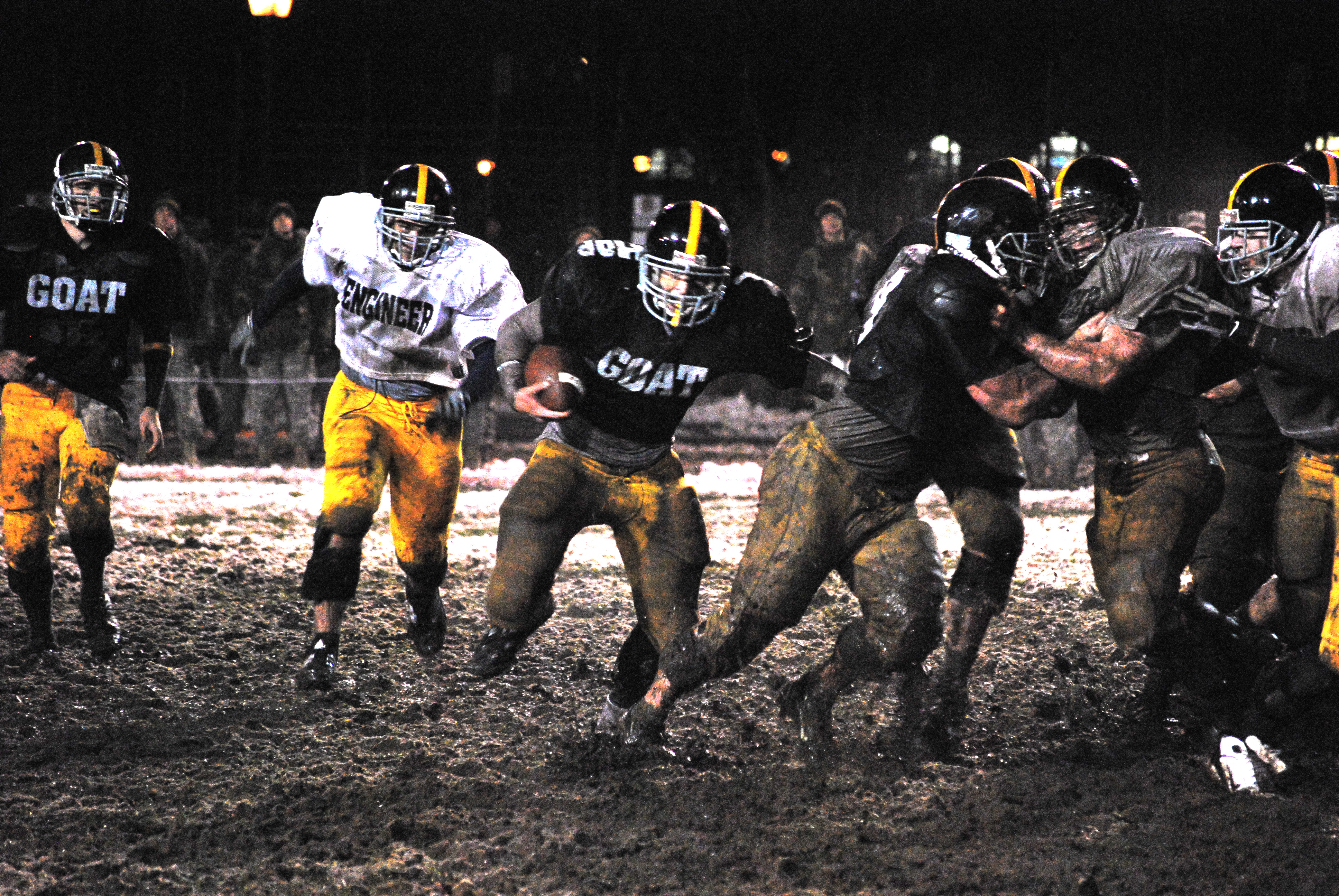 West Point's Goat-Engineer Game